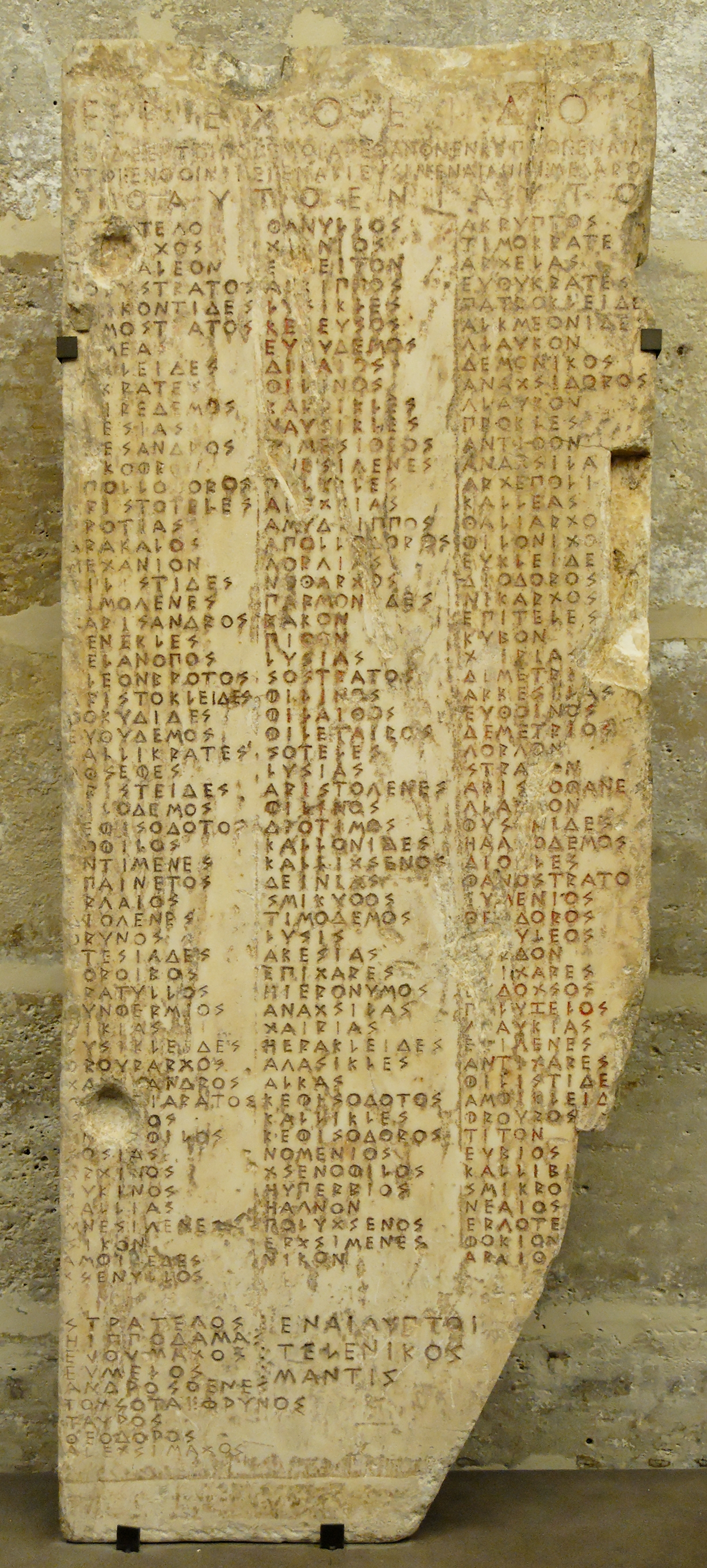 Memorial for the dead of the Erechteid Tribe. Pentelic marble, ca. 460–459 BC, found in Athens in 1674. The inscription reads: “Of the Erechteid Tribe, died at war in Cyprus, in Phoenicia, at Halieis, at Egina, at Megara, the same year.’ Follows a list of 170 dead, among which two strategoi (generals) and a soothsayer. Found in Athens in 1674.